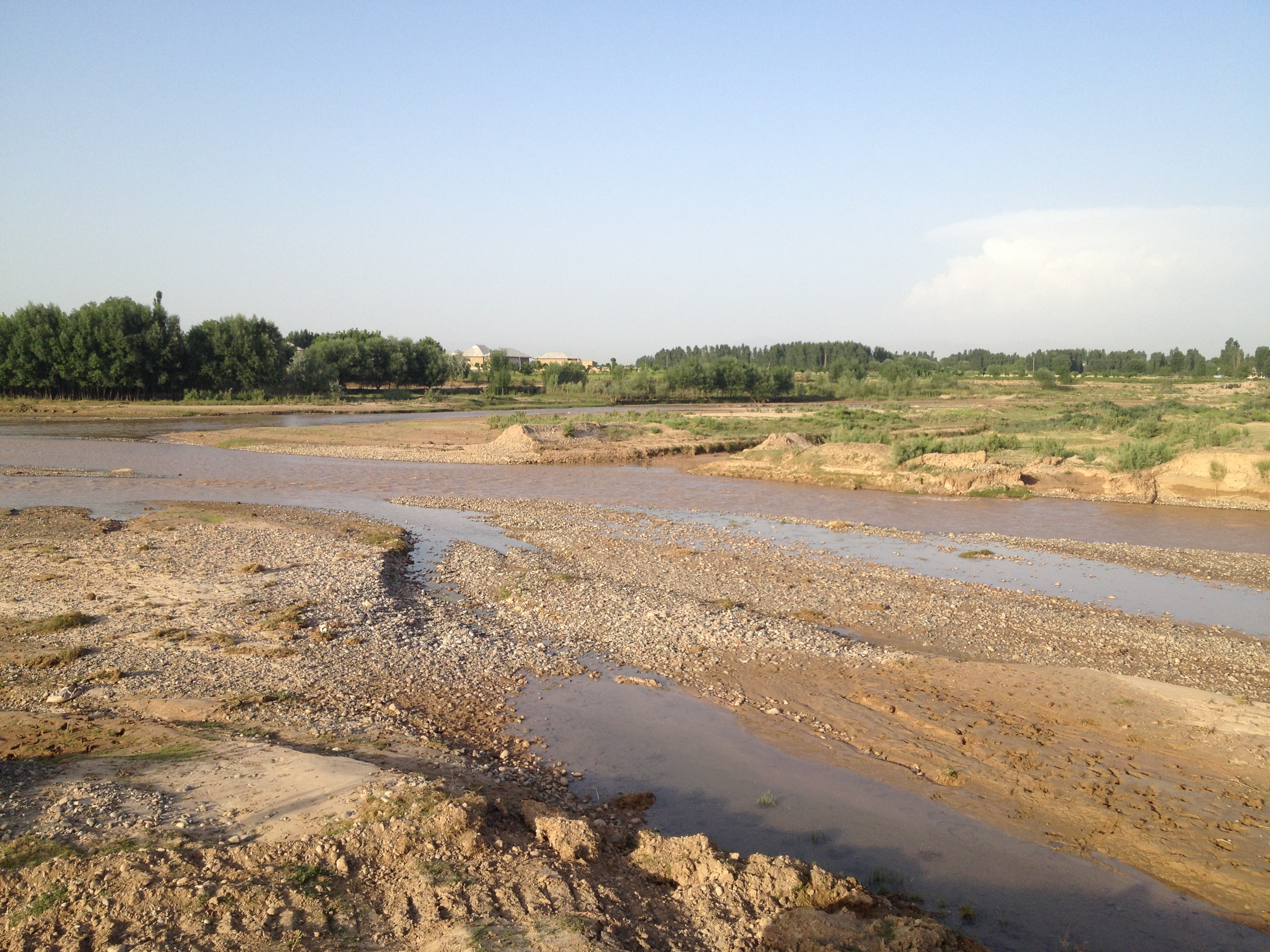 Yakkabag-Darya (before confluence with Tankhazy-Darya)